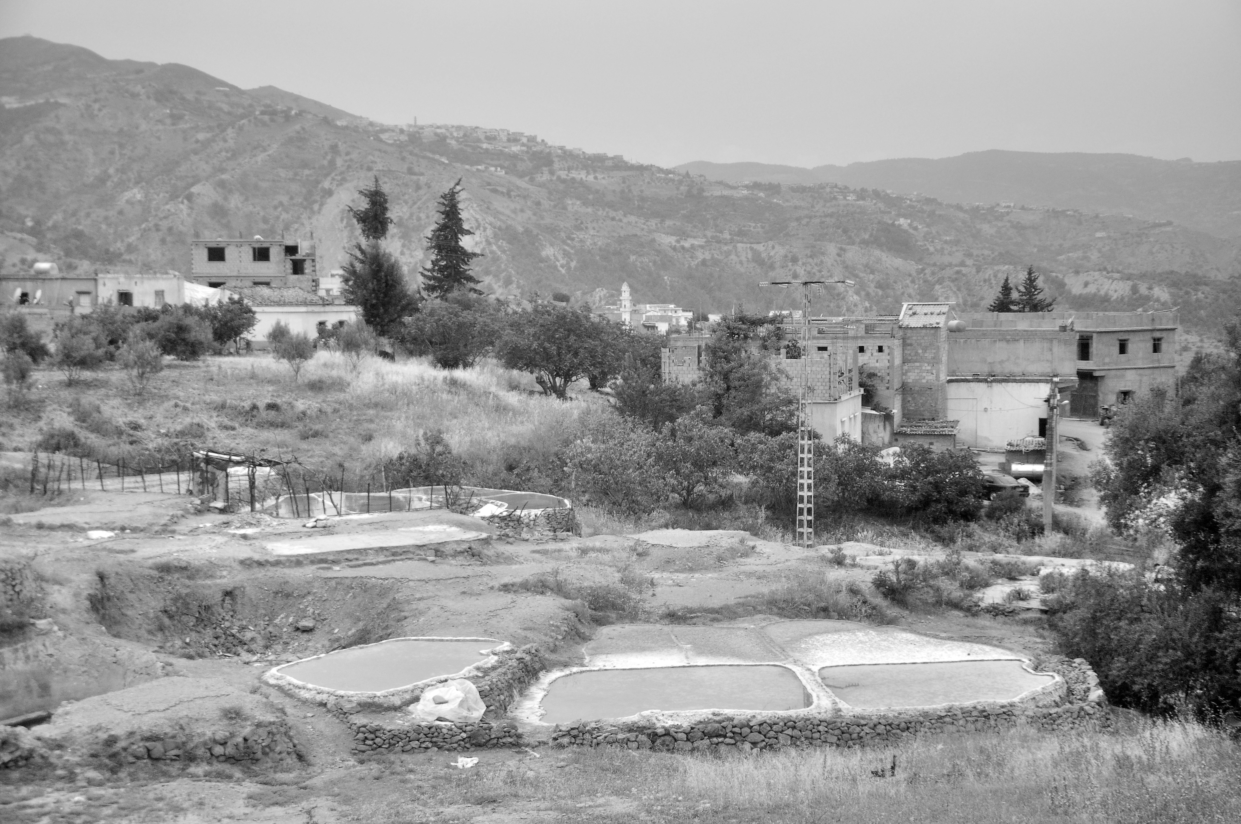 Village Ichekaven, région : Feraoune, commune de la wilaya de Bejaia This is an image of "African people at work" from Algeria